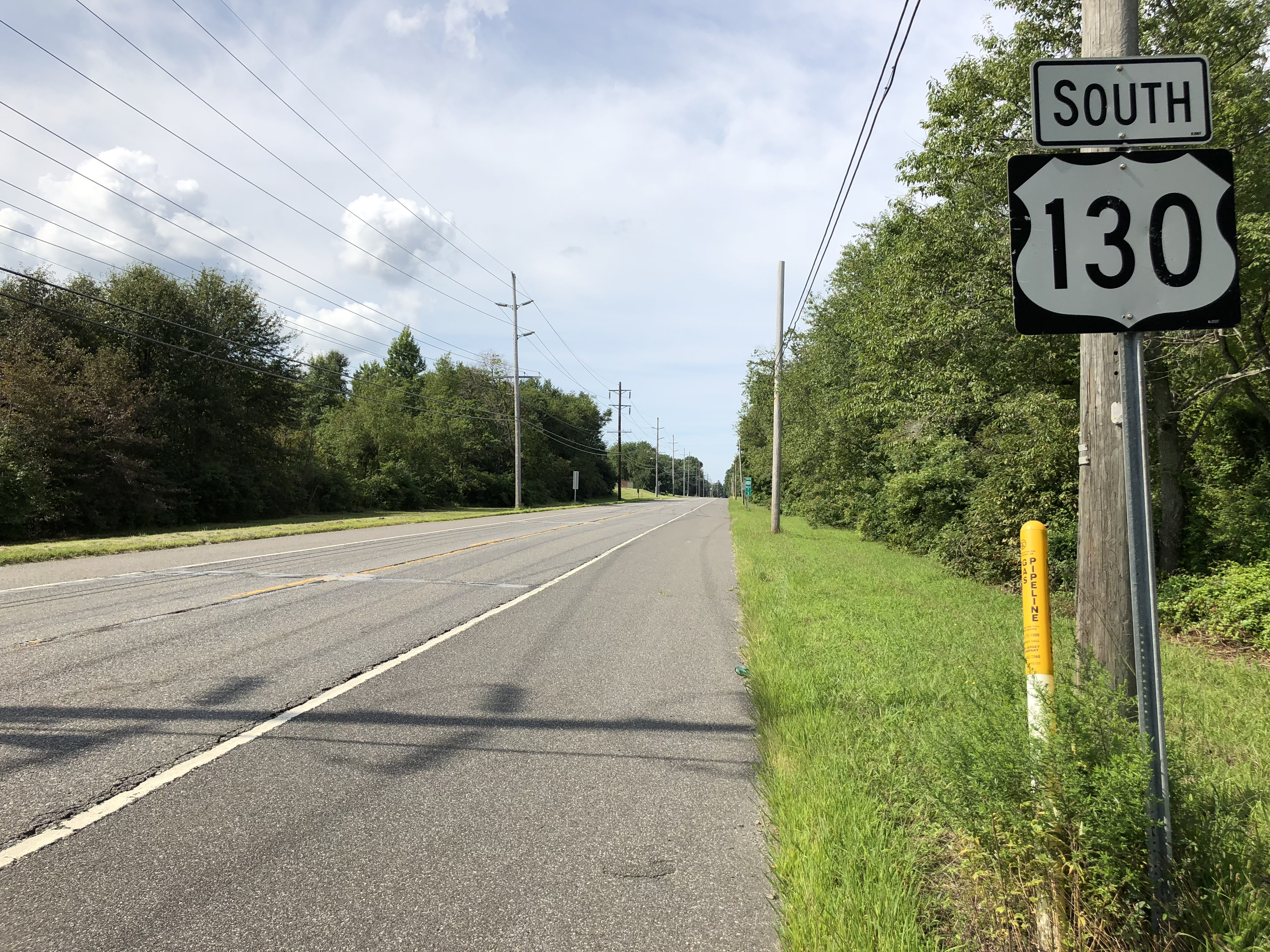 View south along U.S. Route 130 (Bridgeport-Penns Grove Road) just south of Salem County Route 643 (Porcupine Road) in Oldmans Township, Salem County, New Jersey